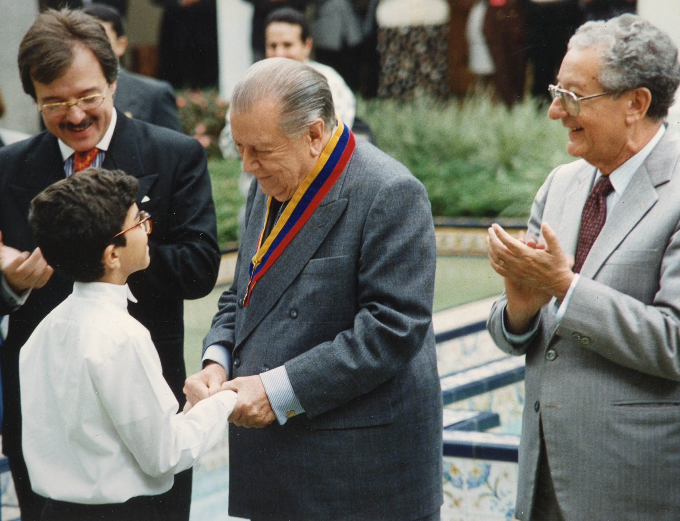 Venezuelan president Rafael Caldera, along with the secretary of presidency, Asdrúbal Aguiar, interior minister José Guillermo Andueza, and members of Venezuela’s Famous Youth Orchestra. Miraflores Palace, Caracas.